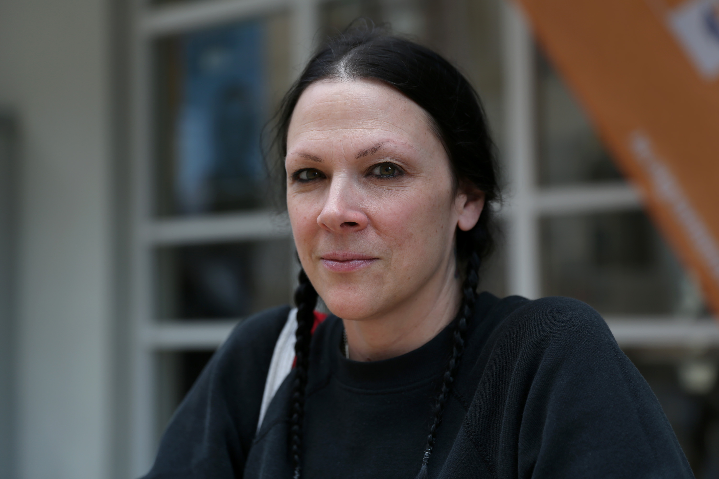 Jennifer Reeder presenting A Million Miles Away at the film festival Vienna Independent Shorts 2014 at Stadtkino at Vienna Künstlerhaus (Vienna, Austria).